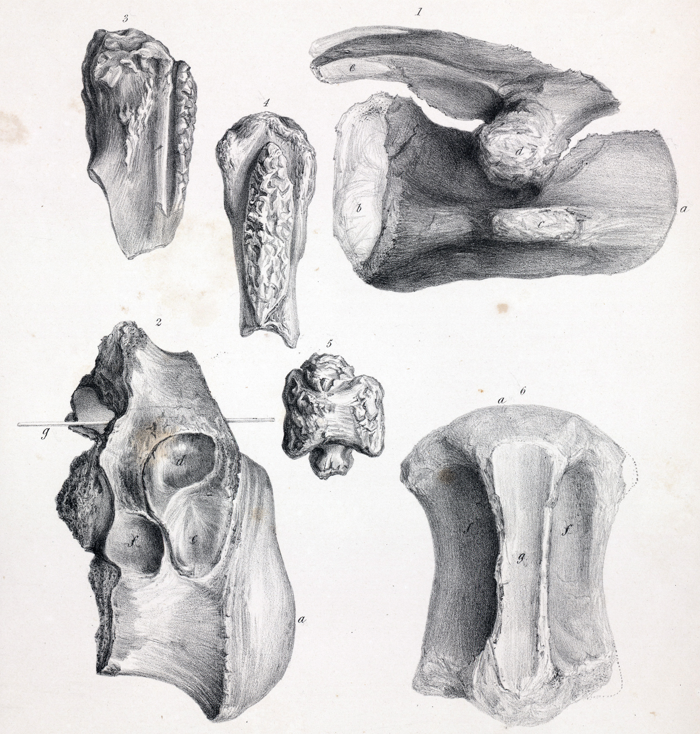 Crocodilia.—Streptospondylus major. Fig. 1. Side view of anterior dorsal vertebra; a, fore end; b, hind end. Fig. 2. Side view of anterior portion of a hinder dorsal vertebra; a, fore end. Fig. 3. Side view of summit of neural spine of do. Fig. 4. Back view of do. Fig. 5. Top view of summit of do. Fig. 6. Top view of centrum of hind dorsal vertebra. From the Wealden of Sussex.